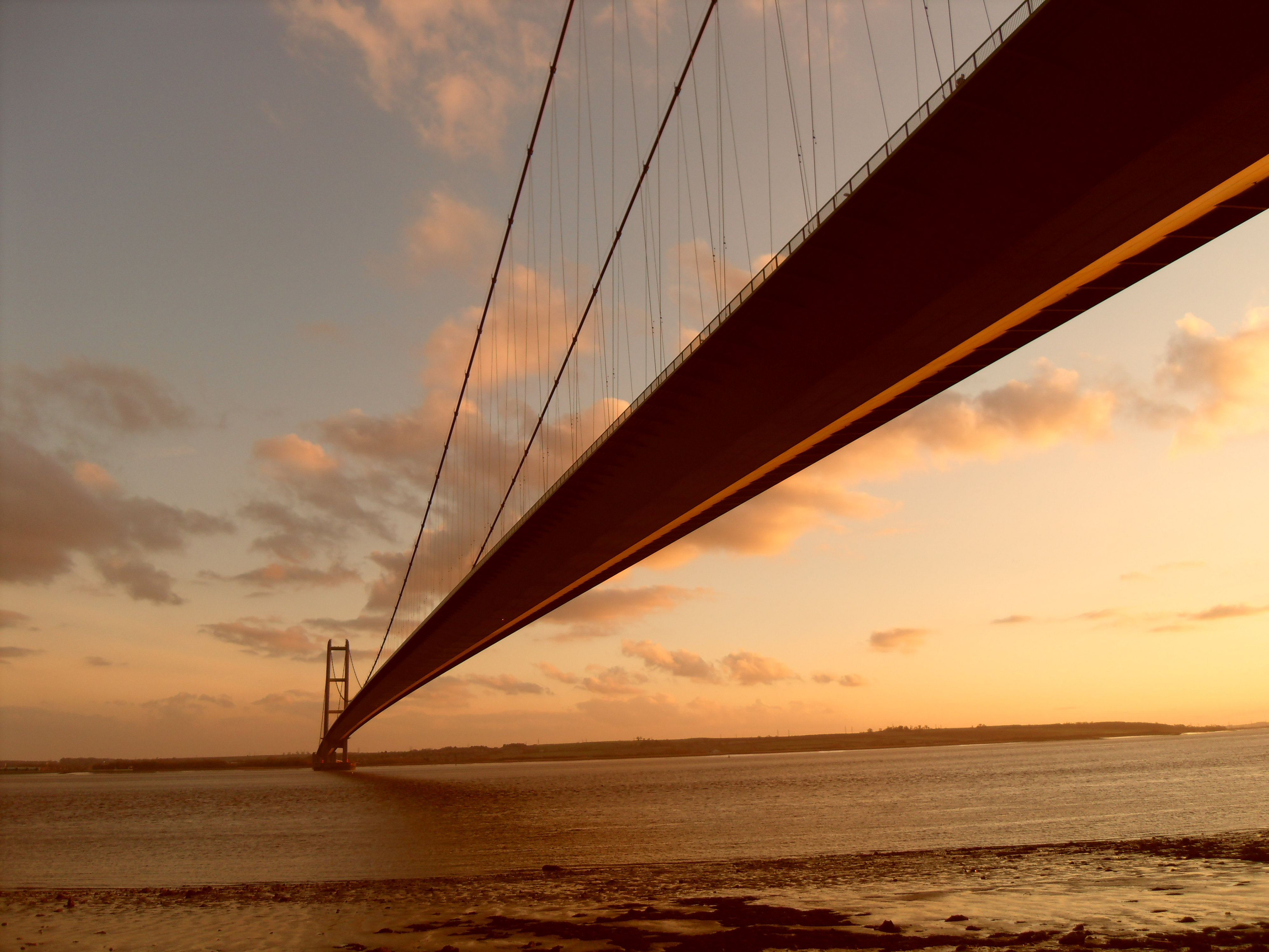 A picture of the Humber Bridge, taken during a sunset on North Bank, at Hessle, East Riding of Yorkshire, England.